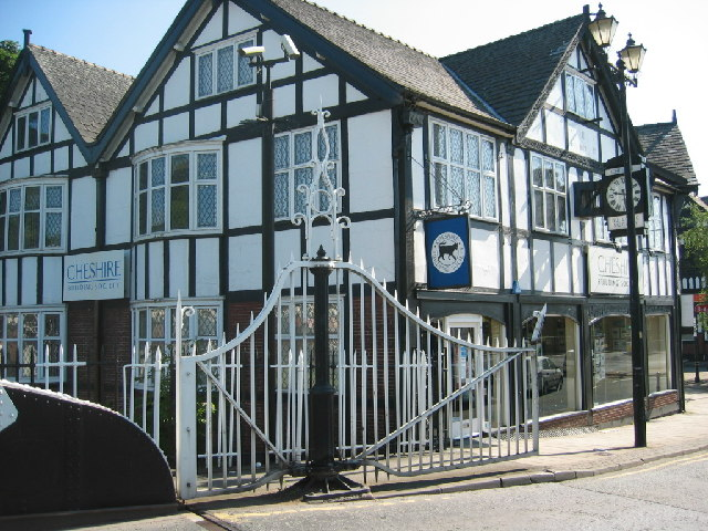 Cheshire Building Society, Bull Ring, Northwich. Typical Cheshire half timbered building common in Northwich town centre. The gates are for the Town Bridge which opens for boats to pass by.